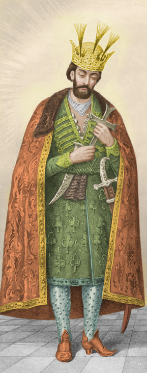 King Luarsab II of Kartli